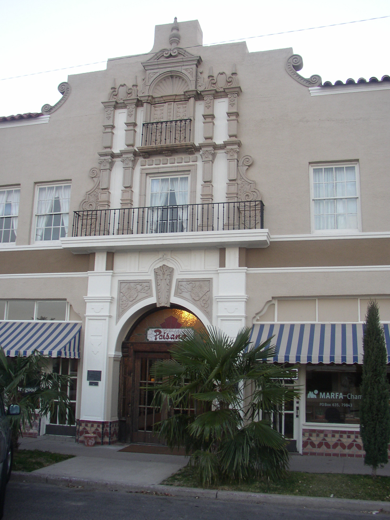 El Paisano Hotel — at North Highland and West Texas Streets, in Marfa, Presidio County, Texas. The 1930 building was designed by the architectural firm of Trost & Trost.